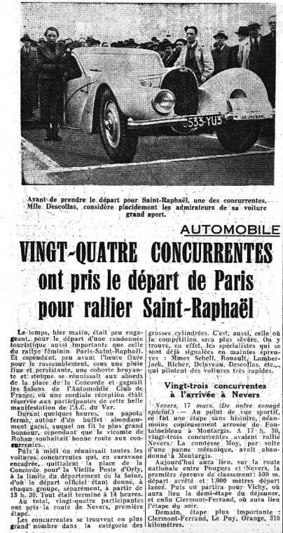 Claire DESCOLLAS and her Bugatti type 57 at the 9th PARIS-SAINT-RAPHAEL women's 1937. Le Figaro March 18, 1937